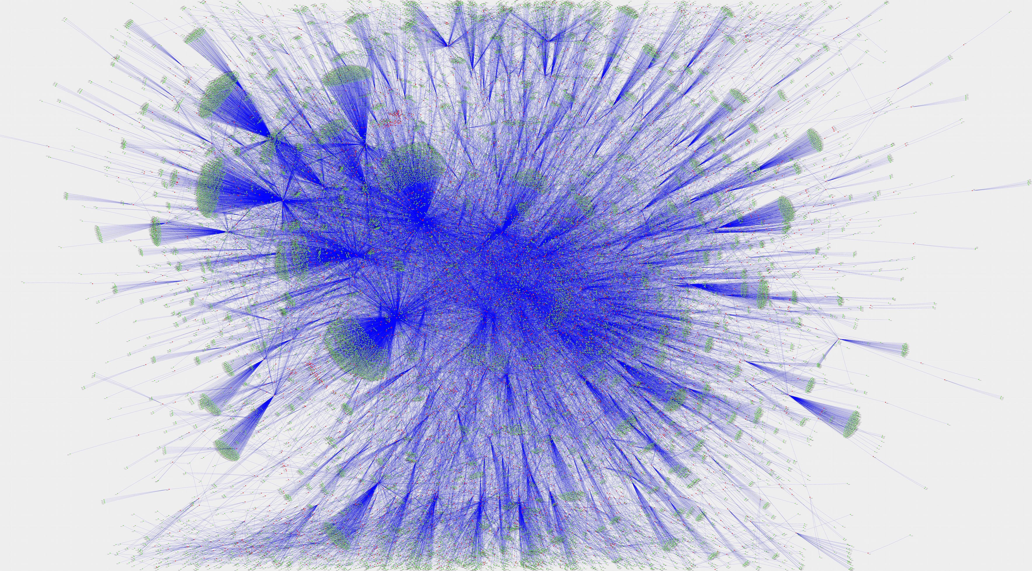 Internet BGP peering map generated from SNMP queeries